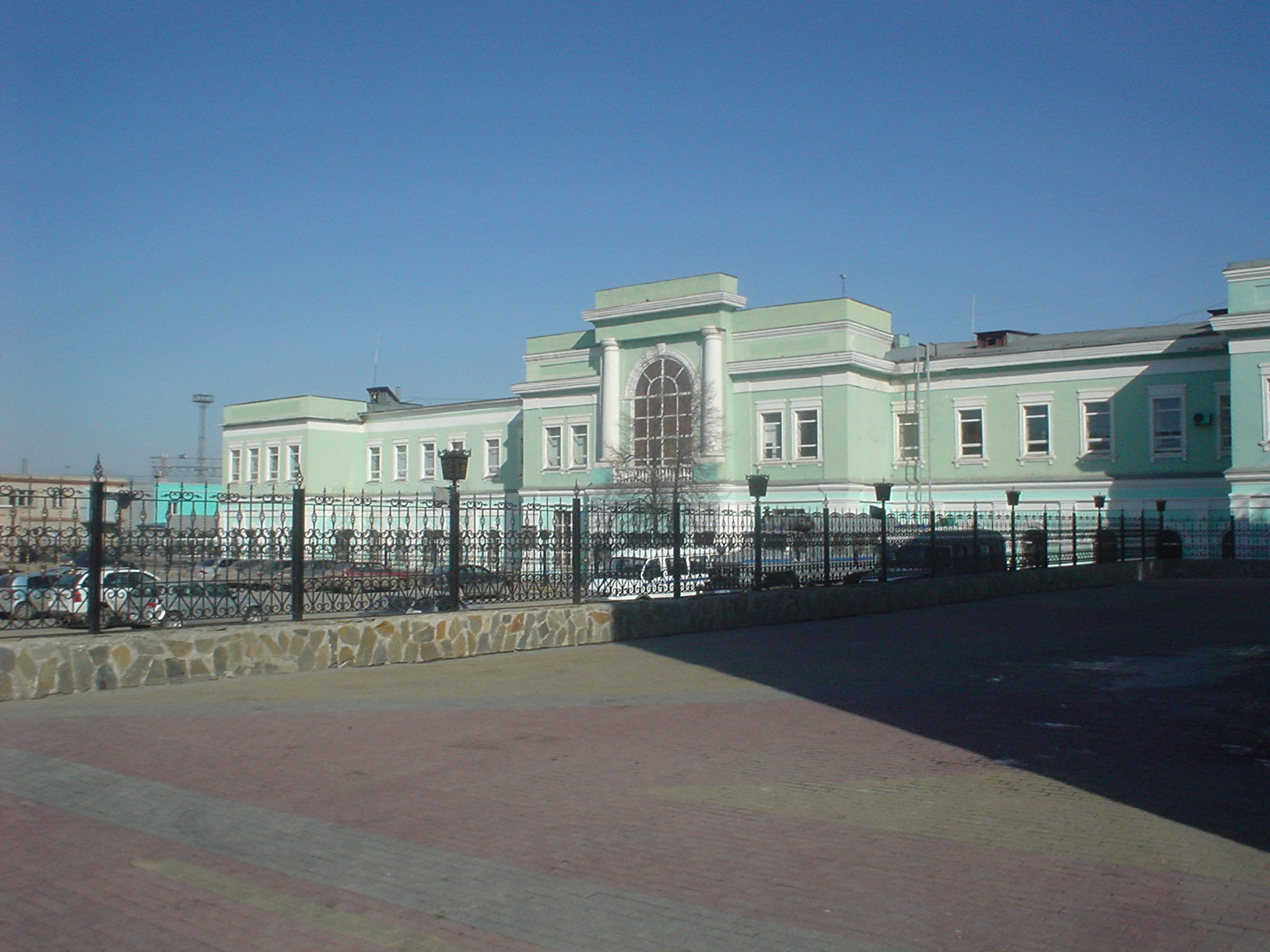 Old station house, railroad station Chelyabinsk, Russia